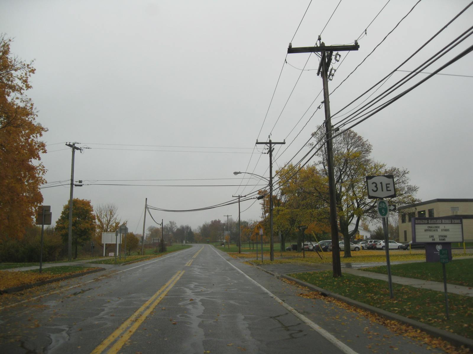 Eastbound on New York State Route 31E in Middleport. In the bottom right corner is a reference marker for the route, noteworthy because this section of the route was transferred from the state of New York to Niagara County in 1998.